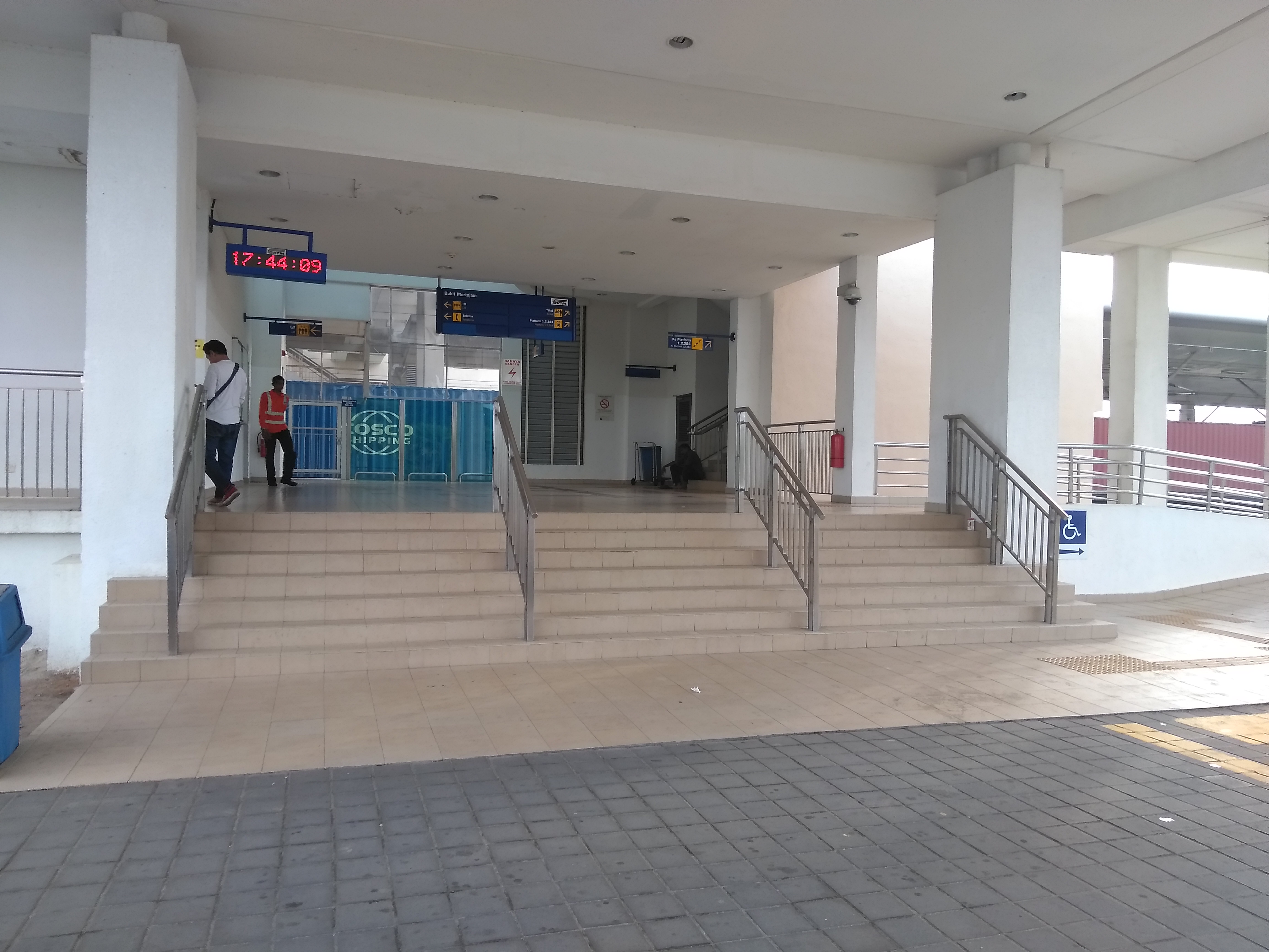 Bukit Mertajam Railway Station entrance